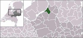 Locator map of Dutch municipalities in Gelderland (LocatieElburg.png)